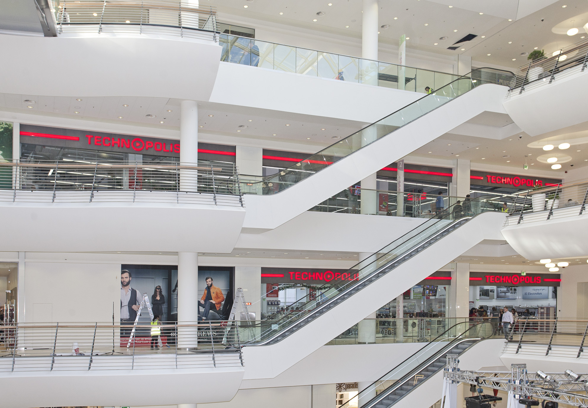 Technopolis BulgariaMall